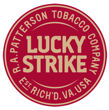 New logo designed for cigarette brand Lucky Strike, in 2013.